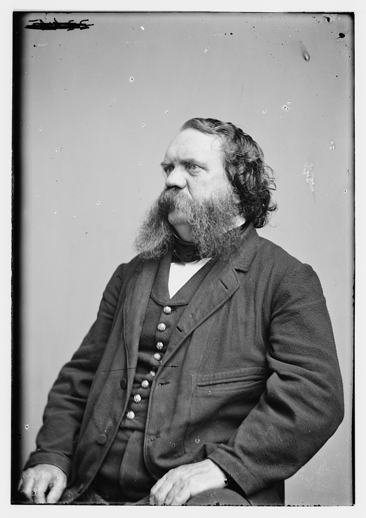 Photograph shows author Thomas Bangs Thorpe (1815–1878).